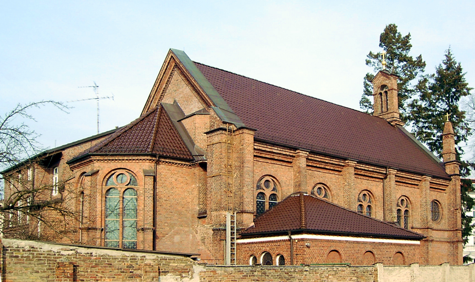 Side view of the Lutheran church building at Fuerstenwalde (Spree), Germany. The building has been completed in 1883. It is an officially recognized landmark of Fuerstenwalde.